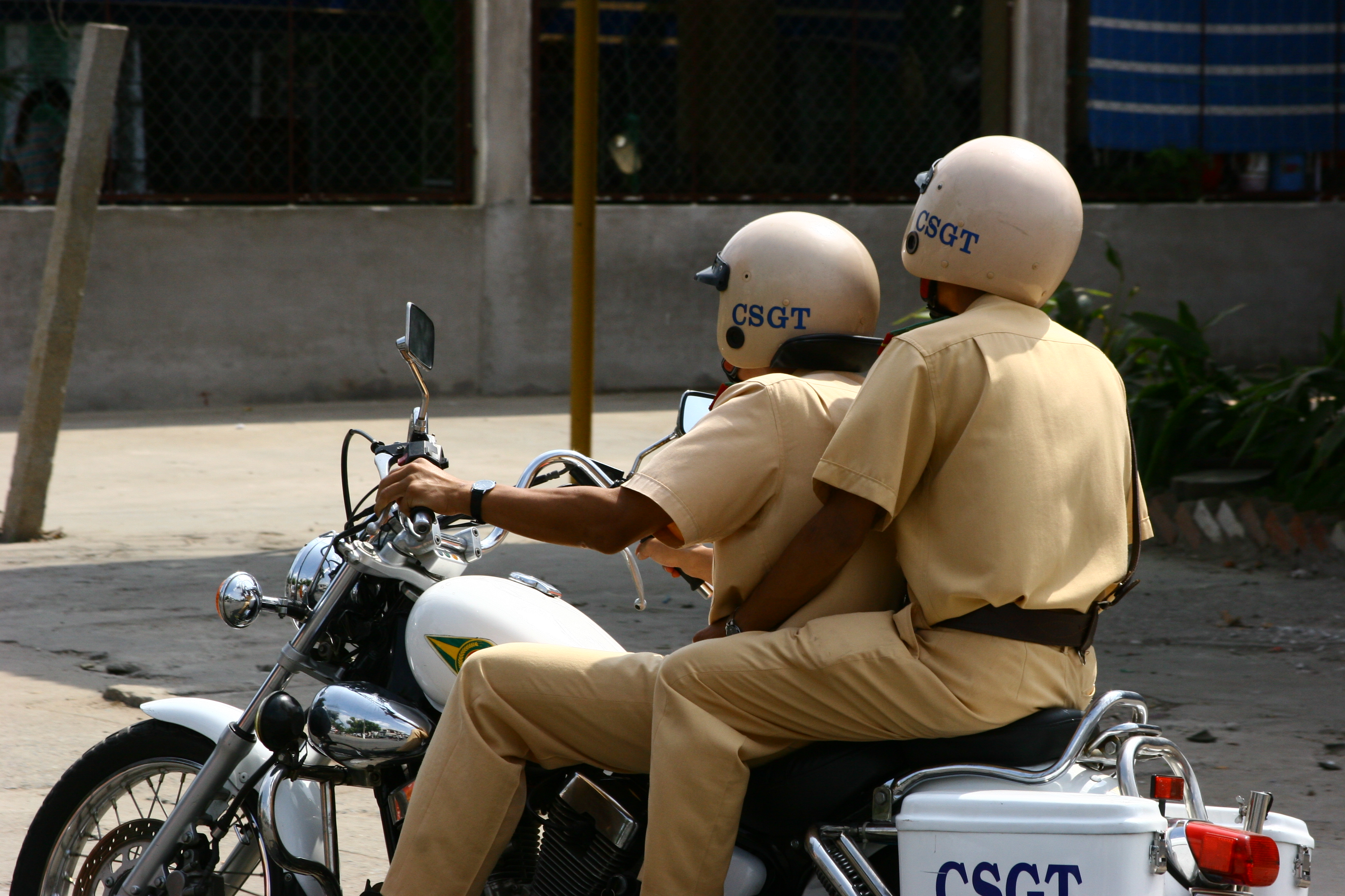 The police in Vietnam are the only people allowed to ride on "big" motorcycles due to legislation restricting the size of motorcycle engine displacements to 175cc (most scooters are between 100cc and 120cc). These "big" motorcycles? ... a whopping 250cc. My bike back home is over 7x larger than these "monsters".